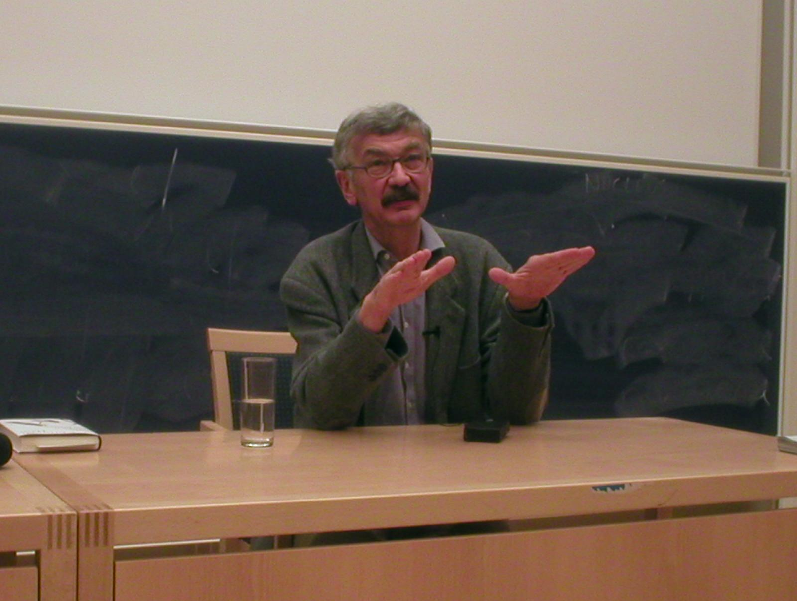 German author Christoph Hein, speaking at University of Göteborg, Sweden 2005.